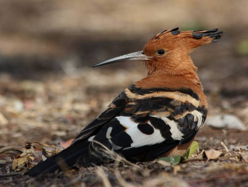 Upupa eopos in Shingwedzi, Kruger National Park